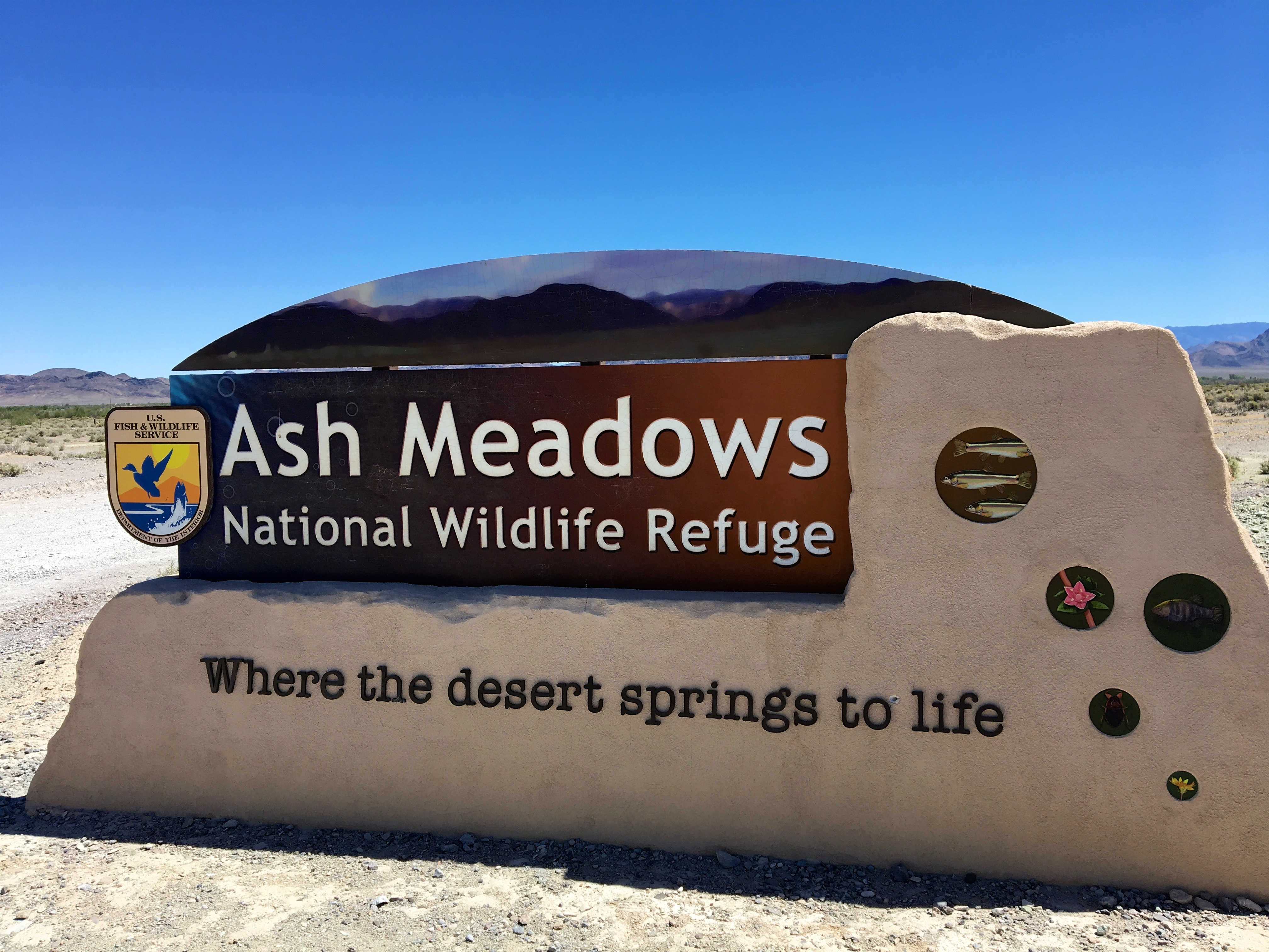 Ash Meadows NWR entry sign 2017-05-14